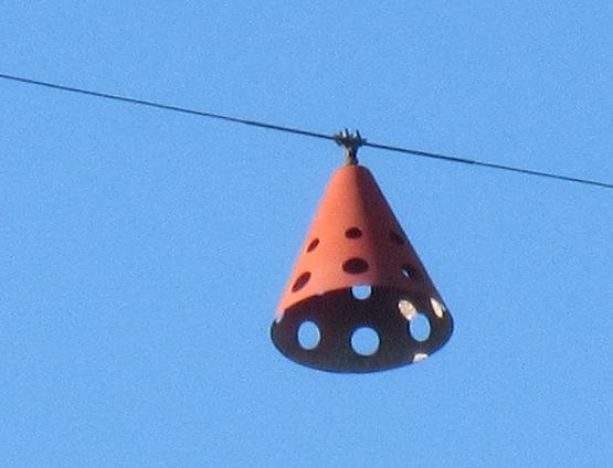 An aviation obstruction marker on a high-voltage overhead transmission line, near Lyncrest Airport, Winnipeg Canada. The marker reminds pilots of the presence of an overhead line which would otherwise be difficult to see.